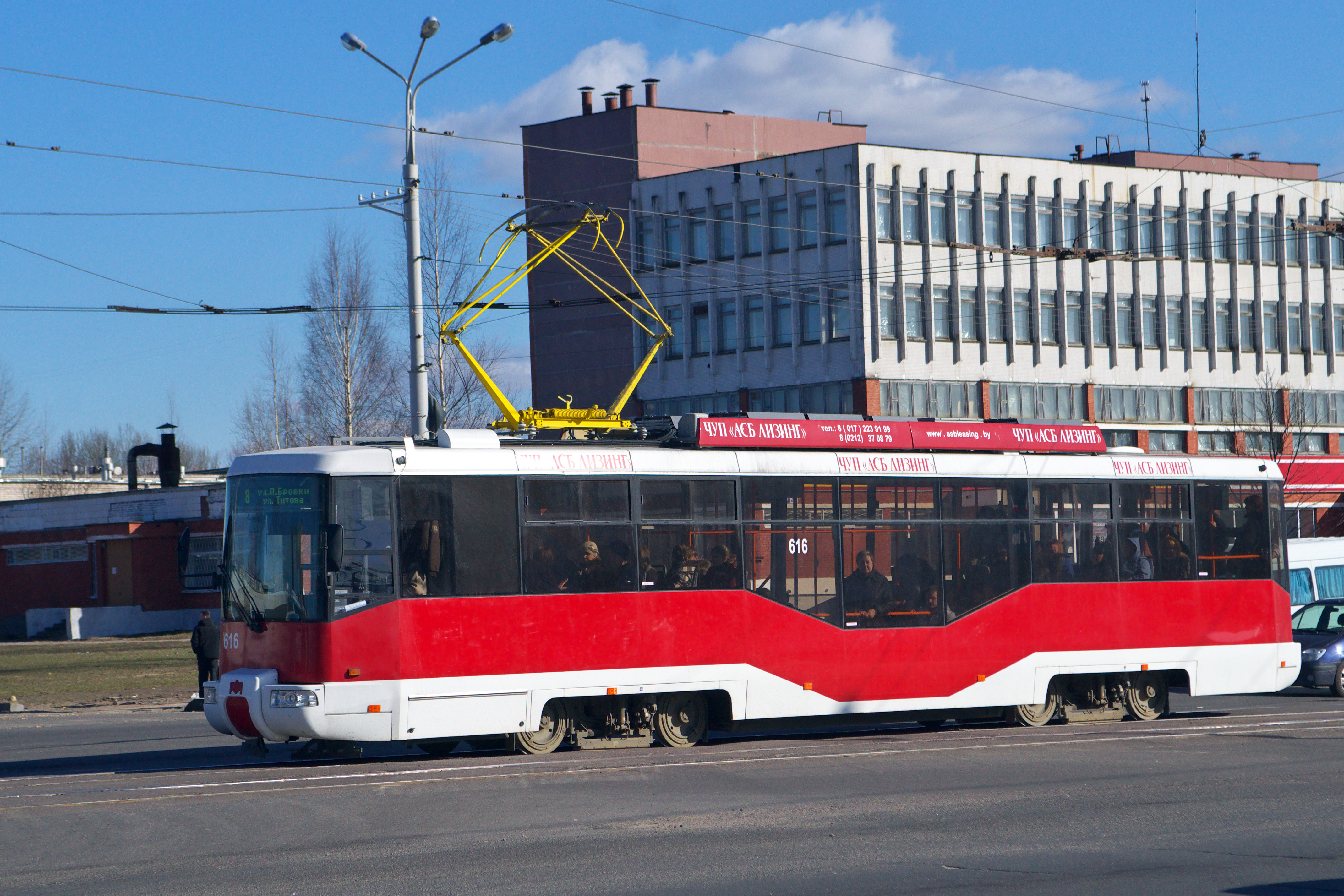 Belarusian tram AKSM-62103 in Vitebsk